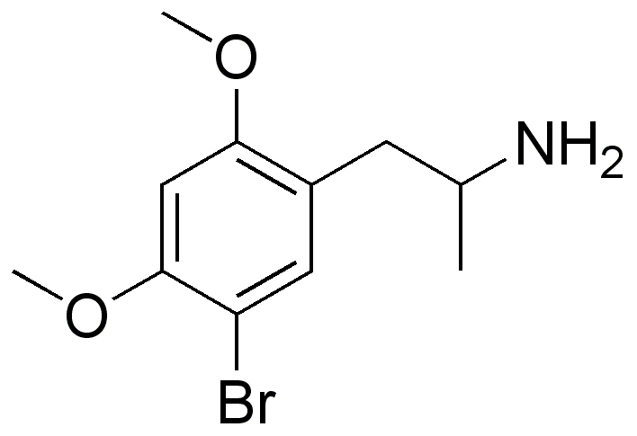 Chemical structure of Meta-DOB, drawn in ChemDraw by User:Mark PEA.